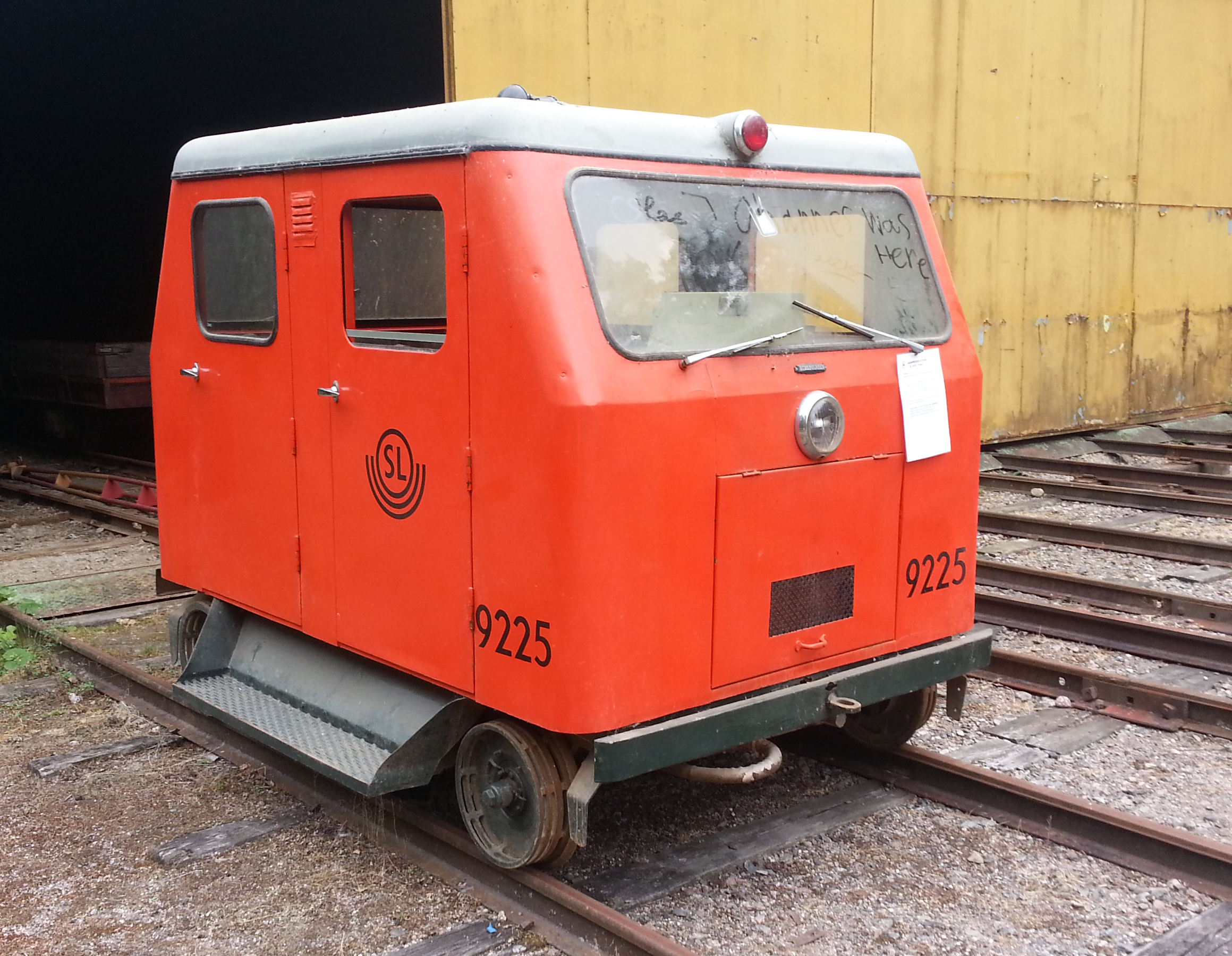 Motor draisin SL 9225, also called "Ärtan" (the pea), outside Trumslagarhallen in Malmköping, July 2014.